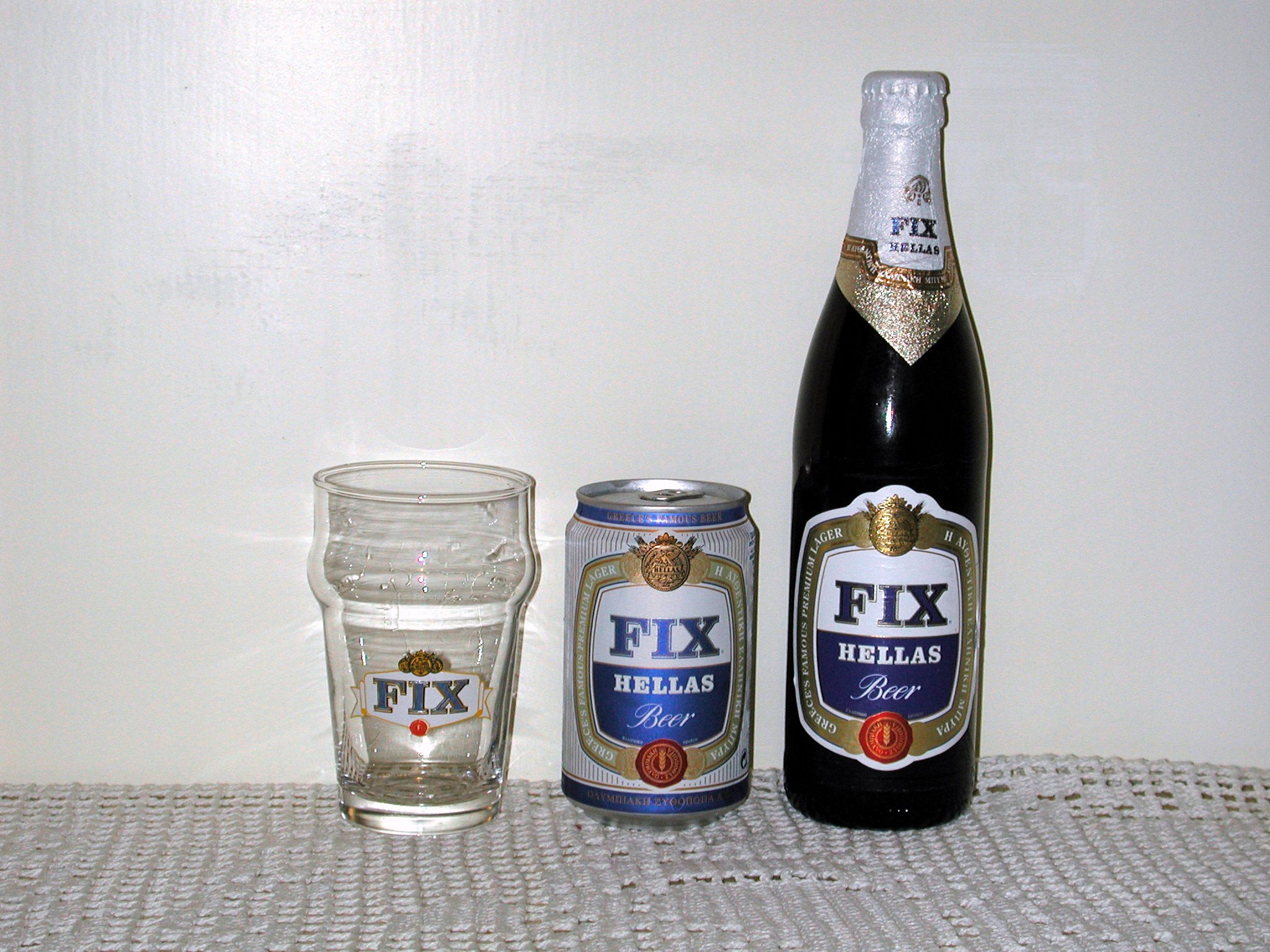 Fix Hellas beer: Bottle, can, and glass in 2008.